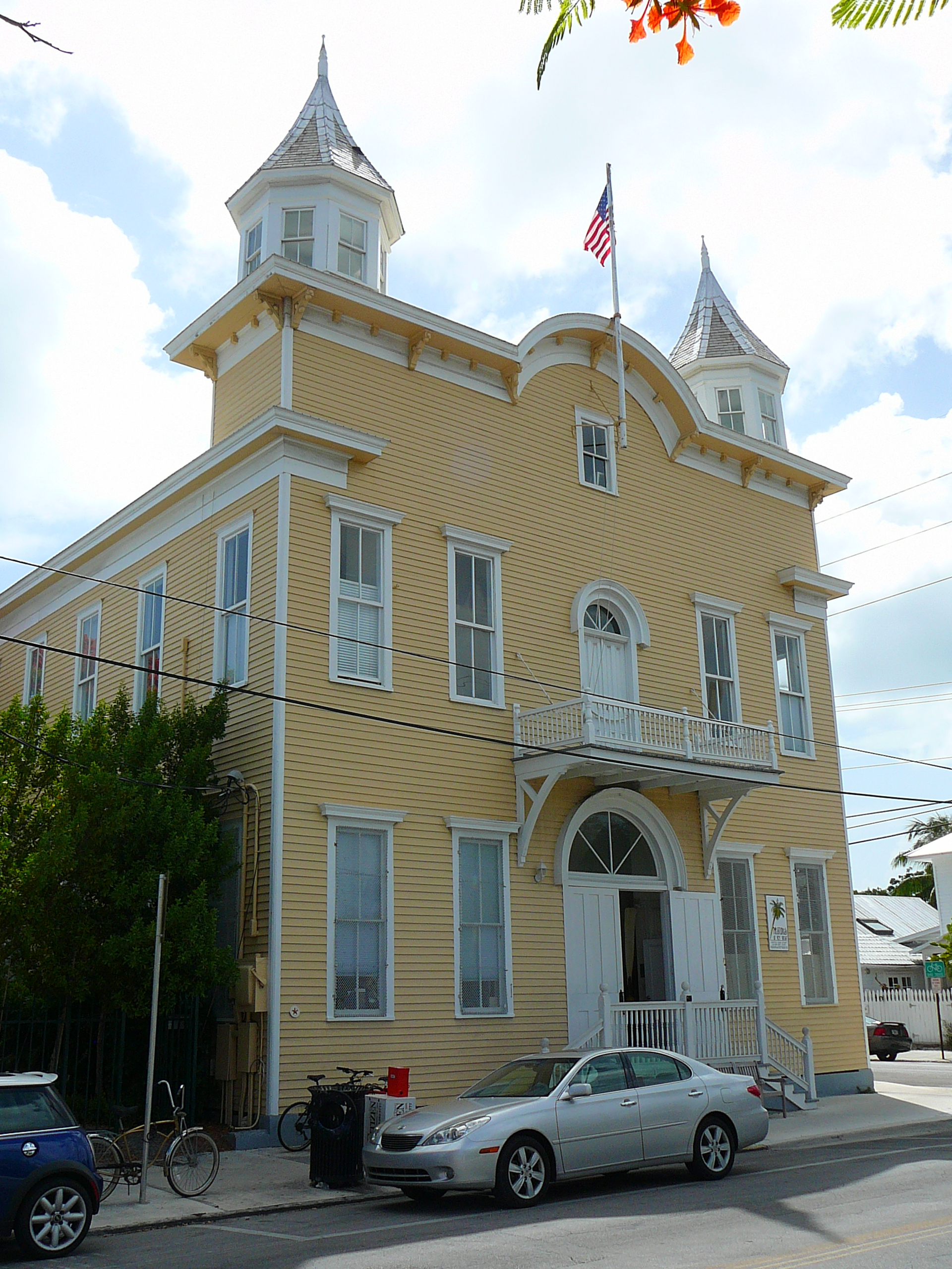 Digital photo taken by Marc Averette. The Armory (Key West) in Key West, Florida